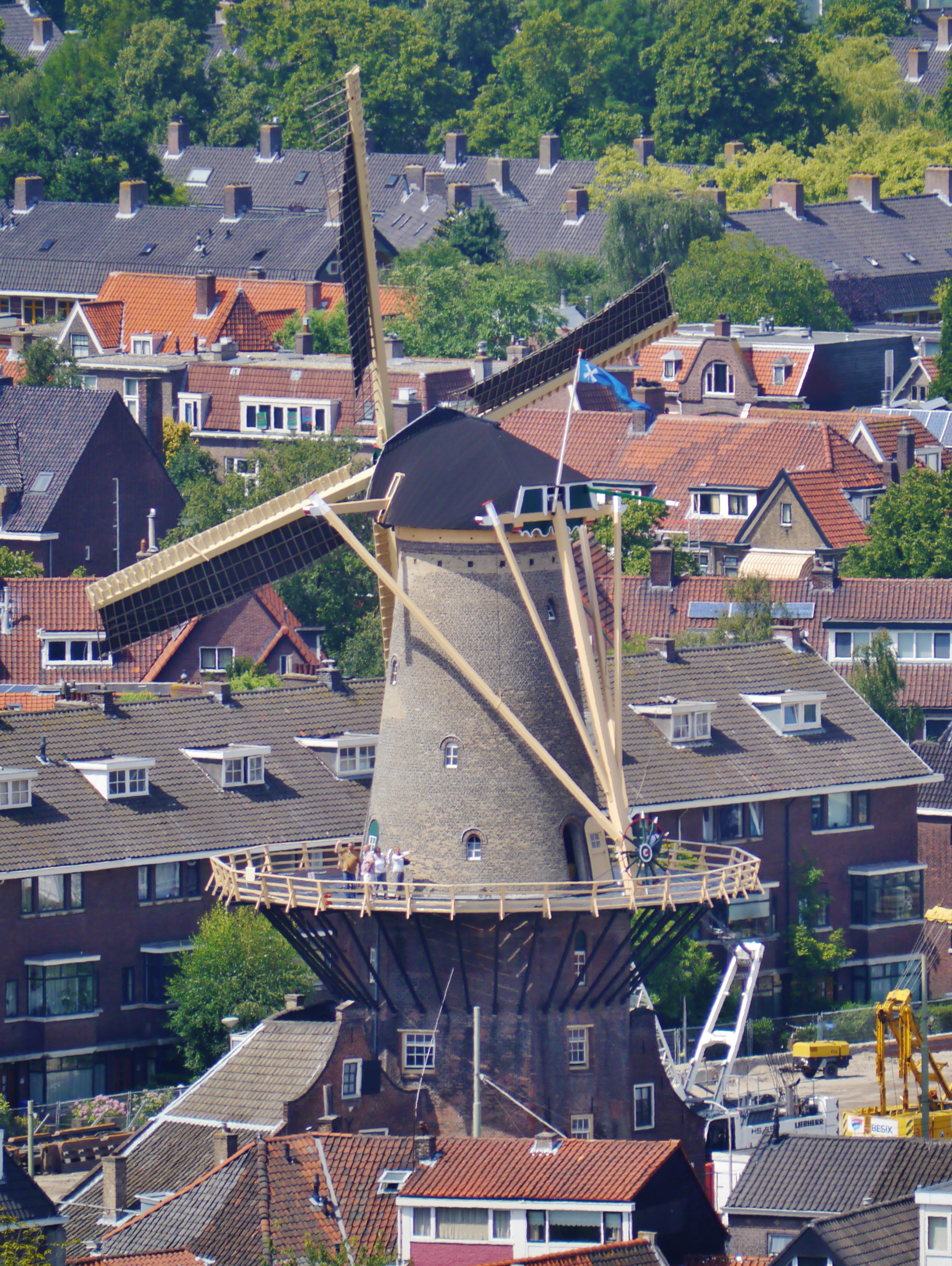 View from the New Church to the Windmill De Roos, Delft, Province of South Holland, Netherlands